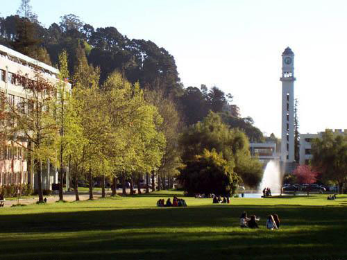 University of Concepcion.